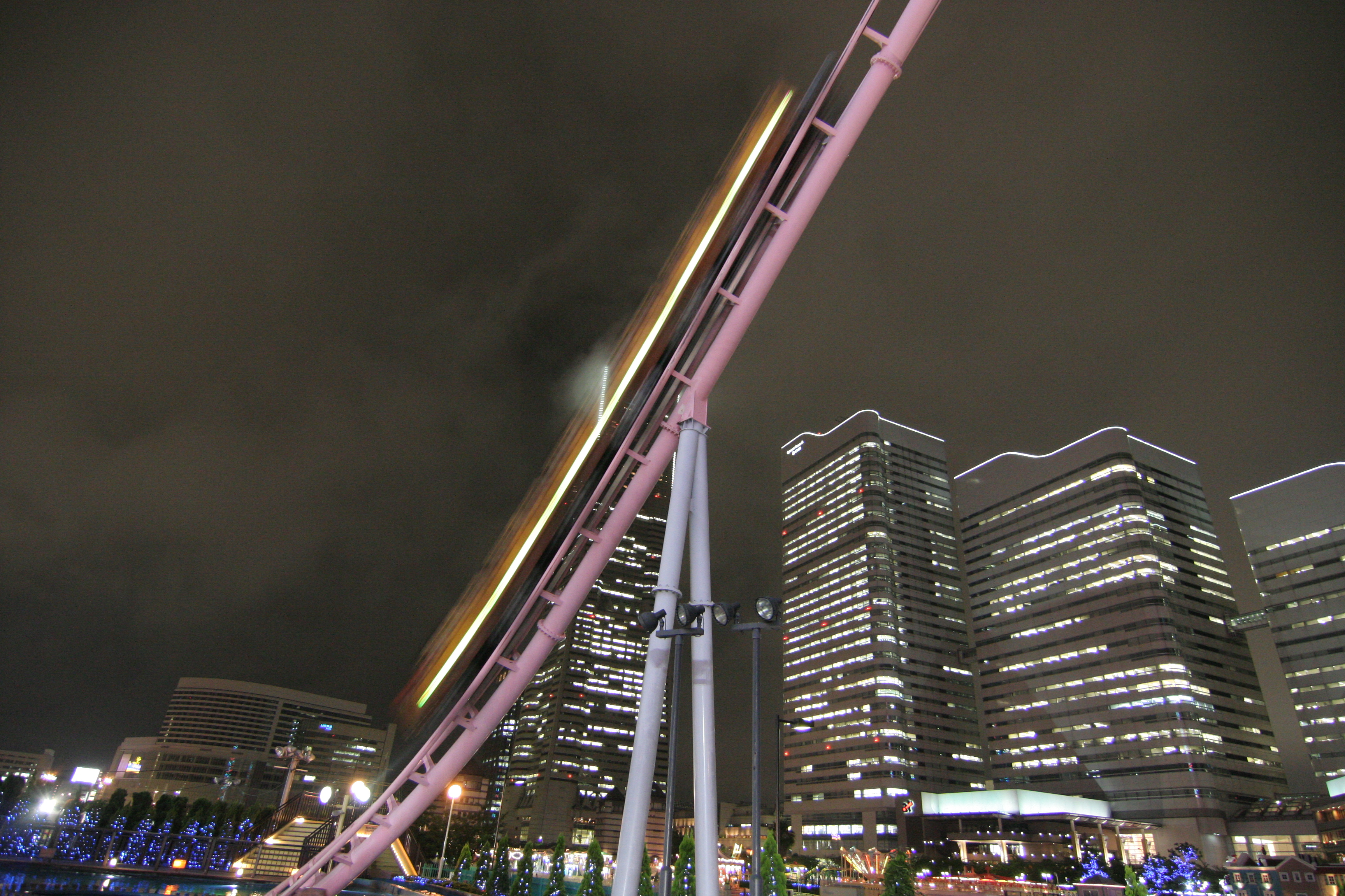 Rollercoaster in Yokohama (photographed in 2009)